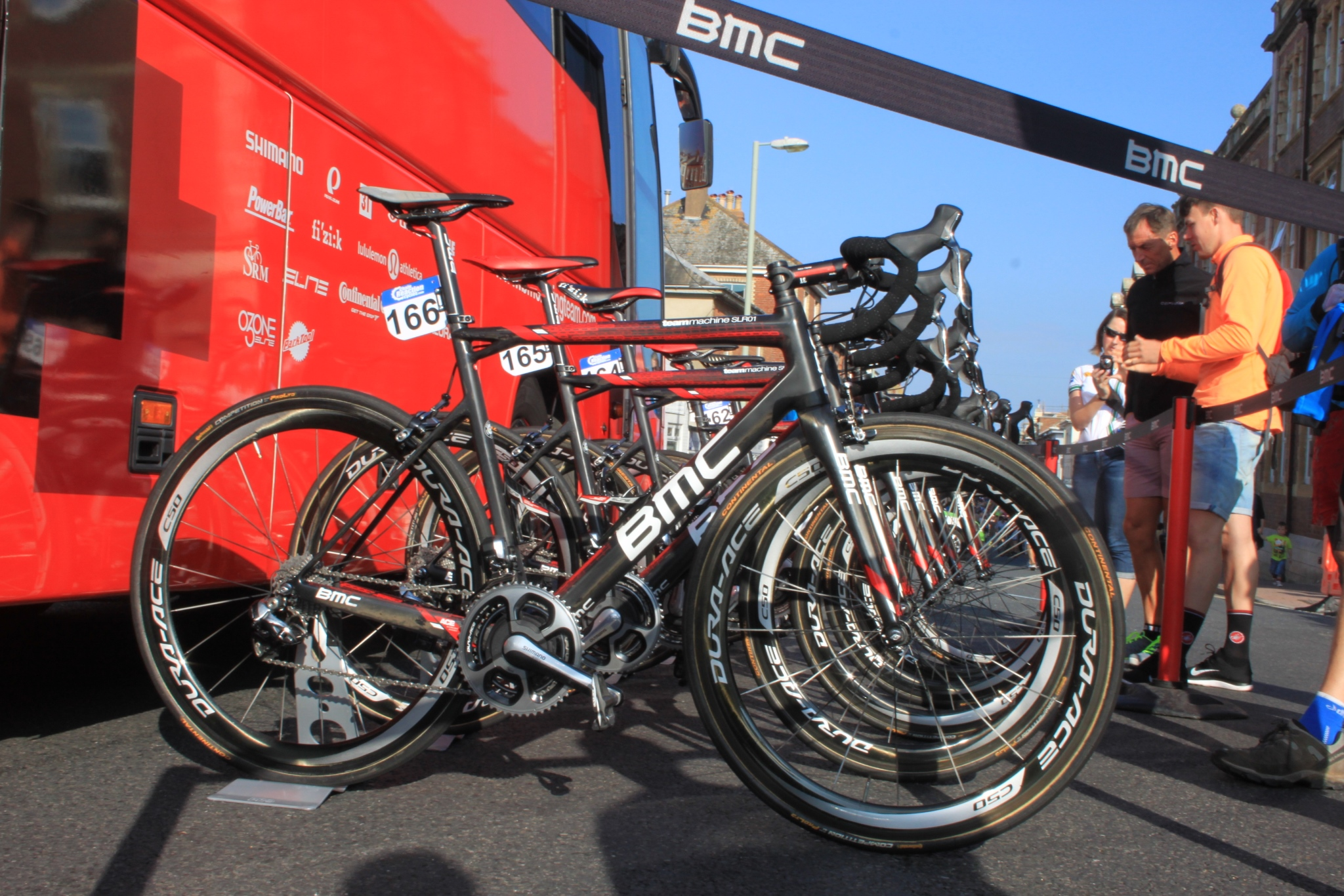 Fans view the bikes of the BMC racing team in Exmouth ahead of stage 5 of the 2014 Tour of Britain. Nearest the camera is the one to be ridden by Peter Velits.